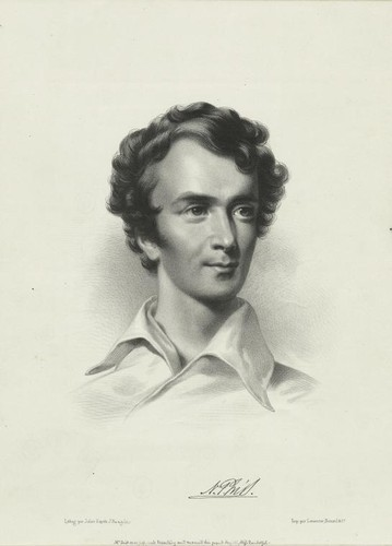 Nicholas Philip Trist, a U.S. diplomat who served as American consul to Cuba and helped negotiate the end of the Mexican War, is the subject of this circa-1850 lithograph published in Paris. The Charlottesville-born Trist married Virginia Jefferson Randolph, one of Thomas Jefferson's granddaughters.